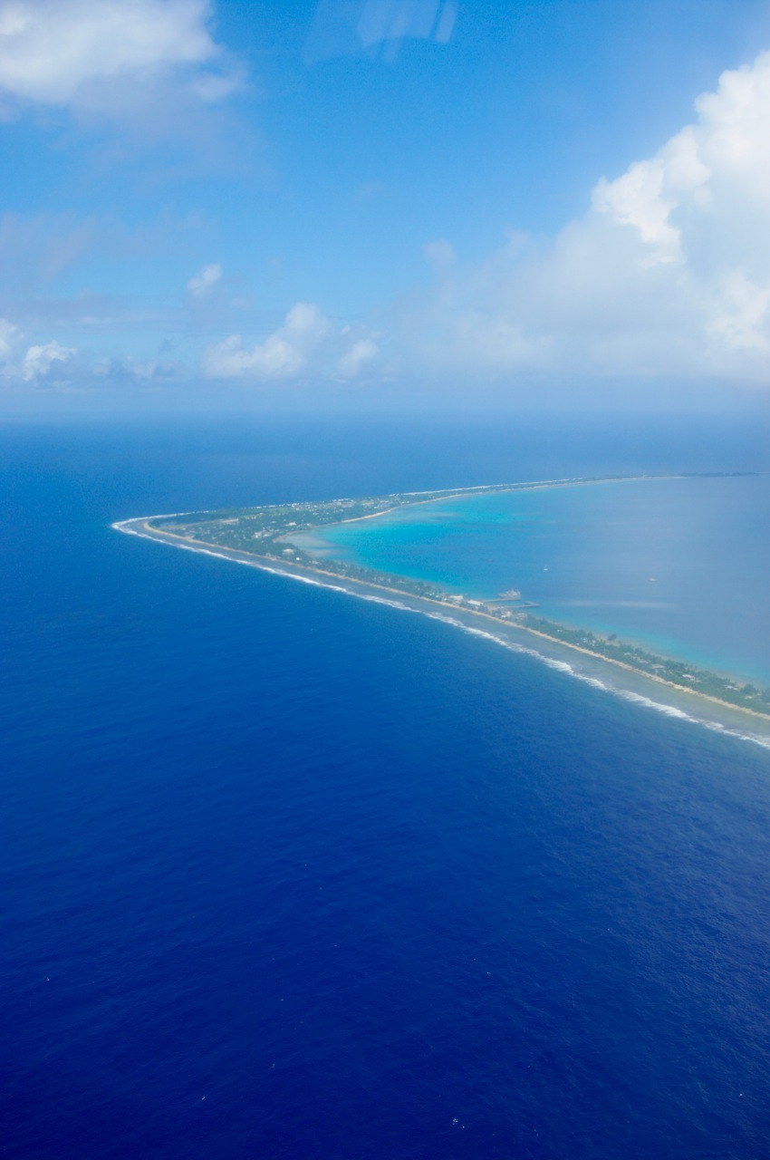 An atoll of Tuvalu